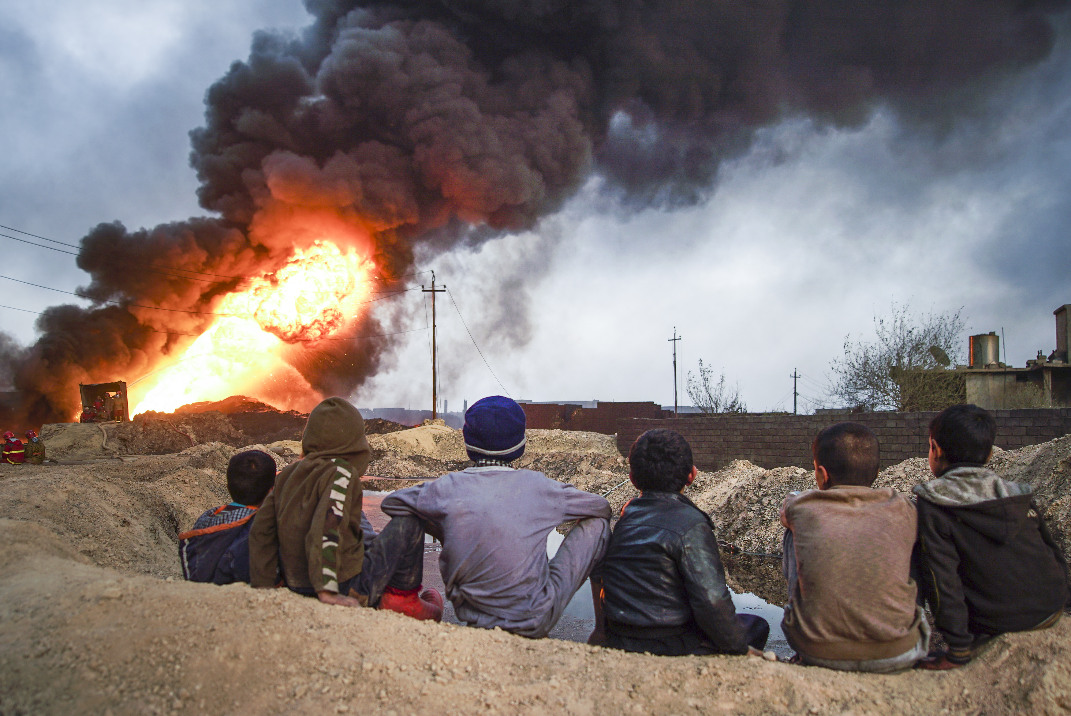 Local boys observing cityscape of Qayyarah town on fire.The Mosul District, Northern Iraq, Western Asia. 09 November, 2016.